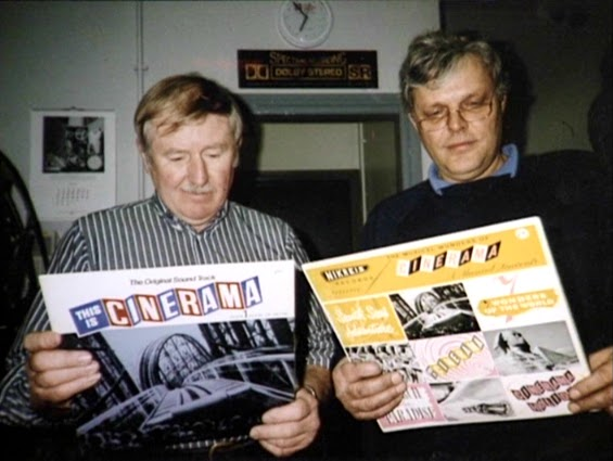 These gentlemen spent years researching all things Cinerama and eventually worked together on the Cinerama installation in Bradford, England in 1993.